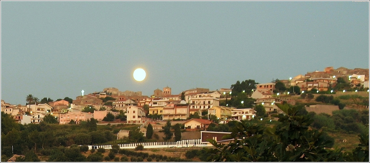 Valdina and Venetico's sunset under the moon